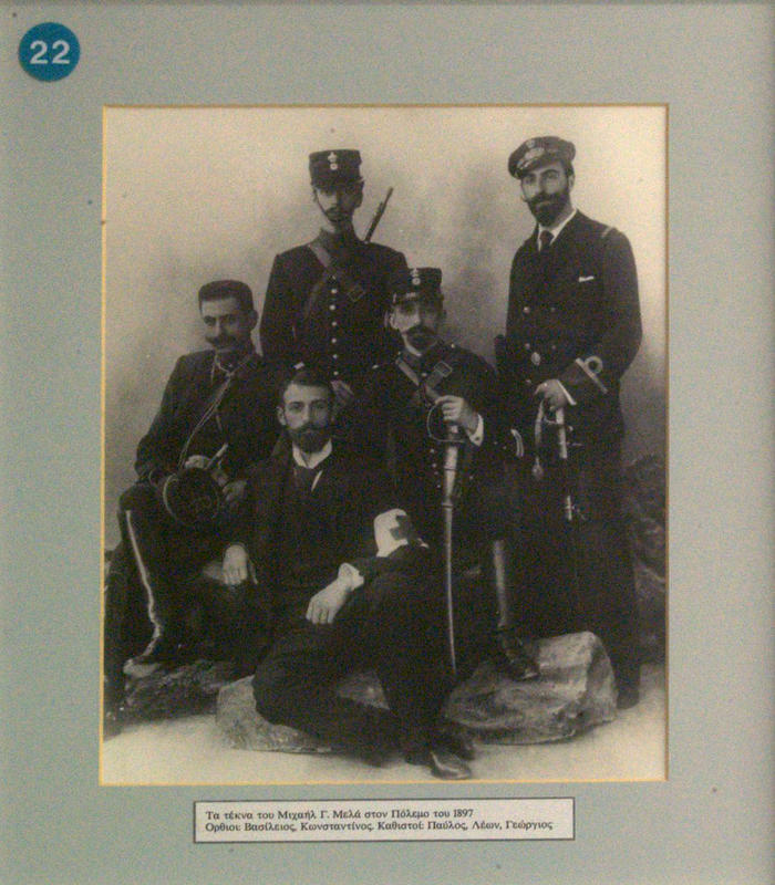 greek revolutionaries